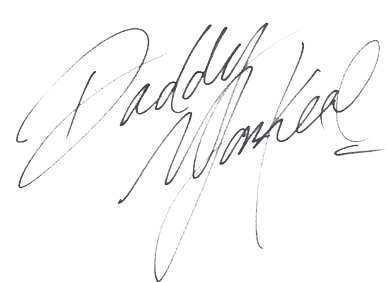 Signature of artist Ramón Ayala Rodriguez, known as Daddy Yankee